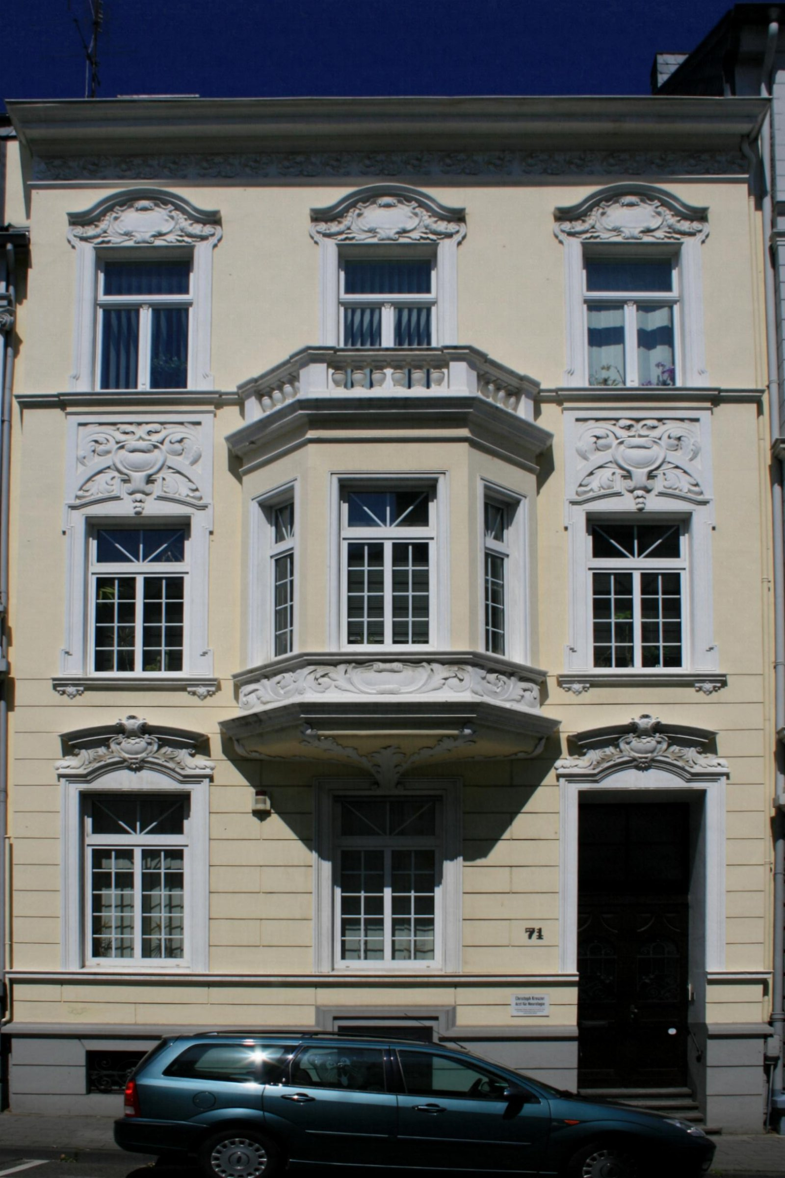 Cultural heritage monument No. K 053 in Mönchengladbach